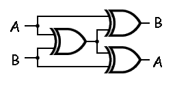 Logic diagram of a Boolean crossover comprised of three exclusive-or gates